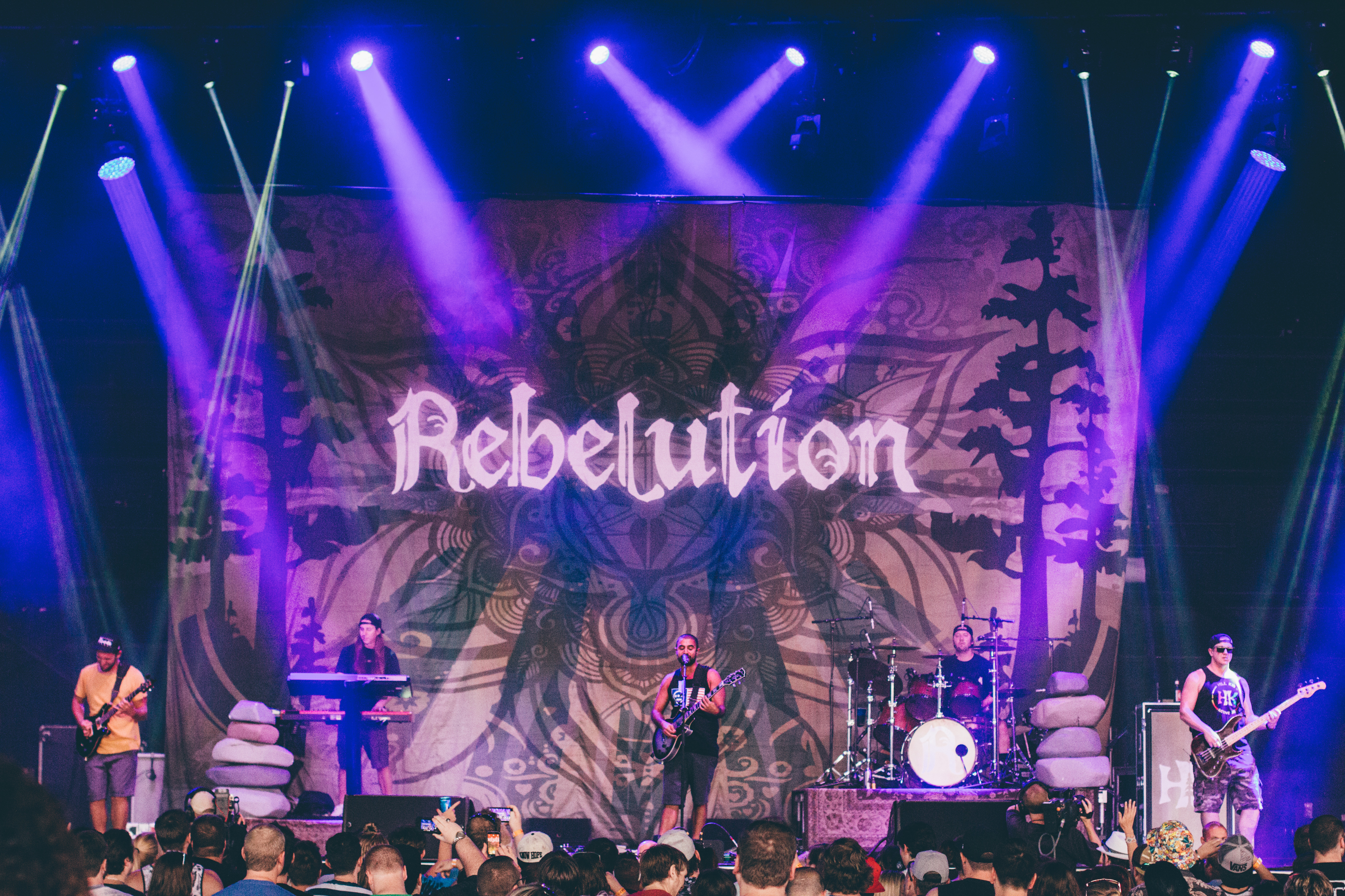 Rebelution